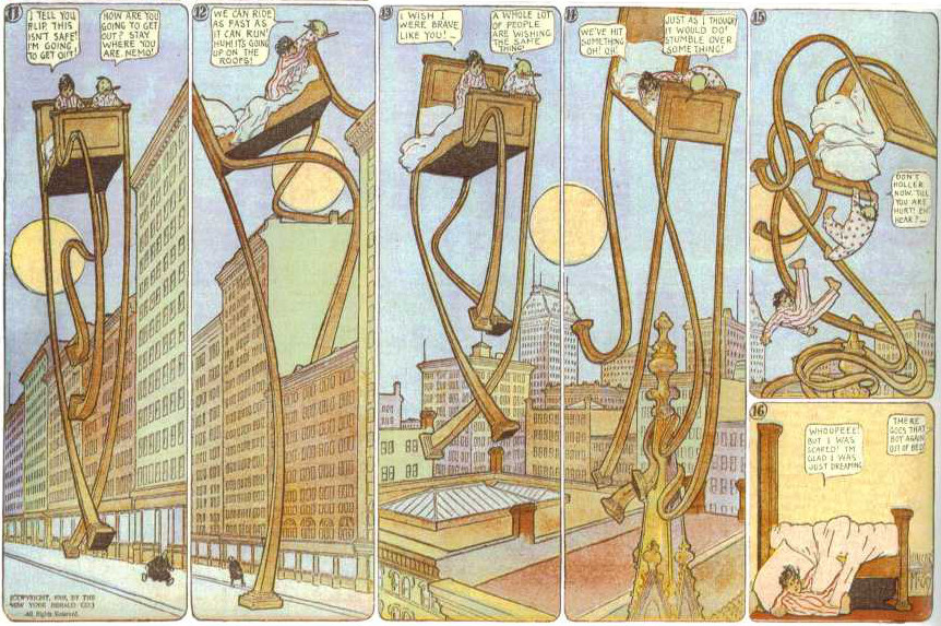 Panels 11 to 15 of the 1908-07-26 installment of Little Nemo in Wonderland by Winsor McCay